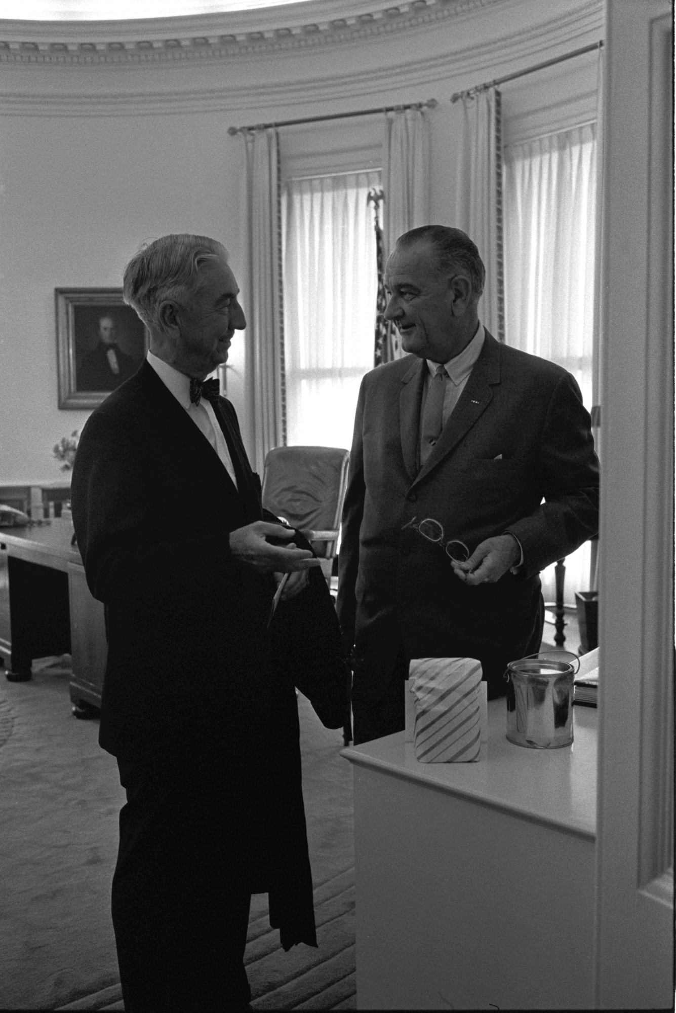 U.S. Supreme Court Justice Tom Clark with President Lyndon B. Johnson.